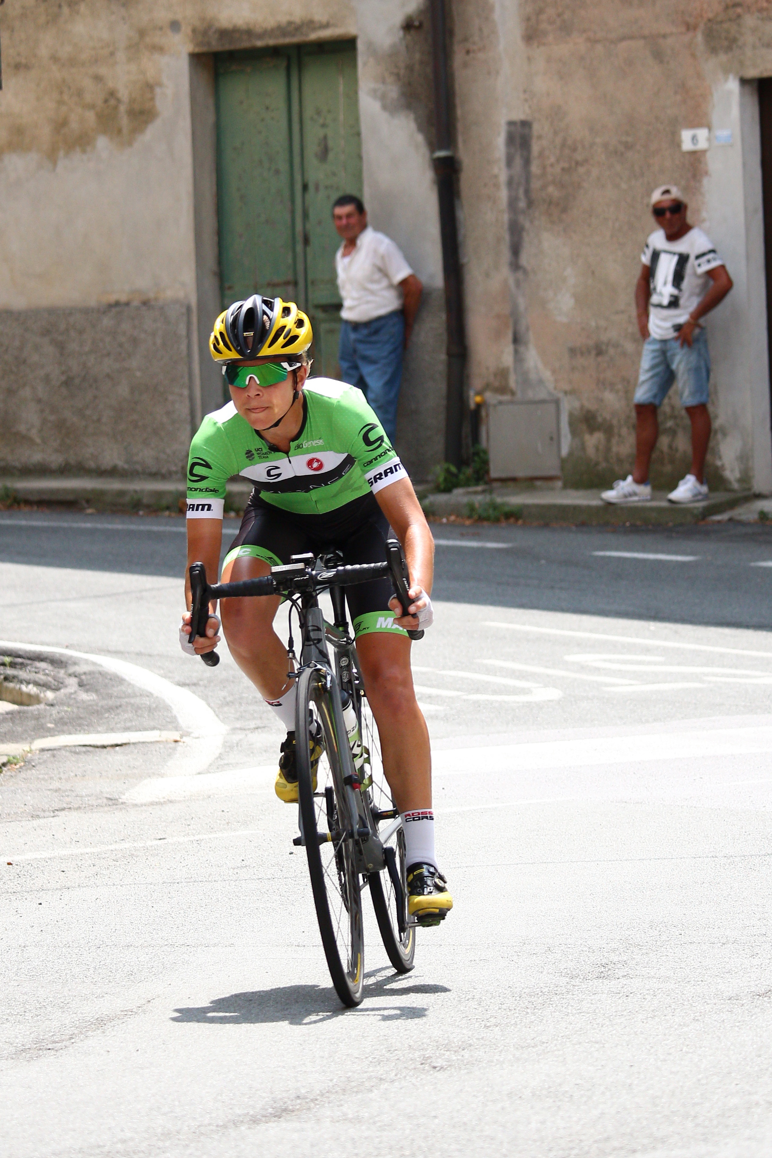 during the 7th stage of Giro Rosa 2016 in Stella San Martino